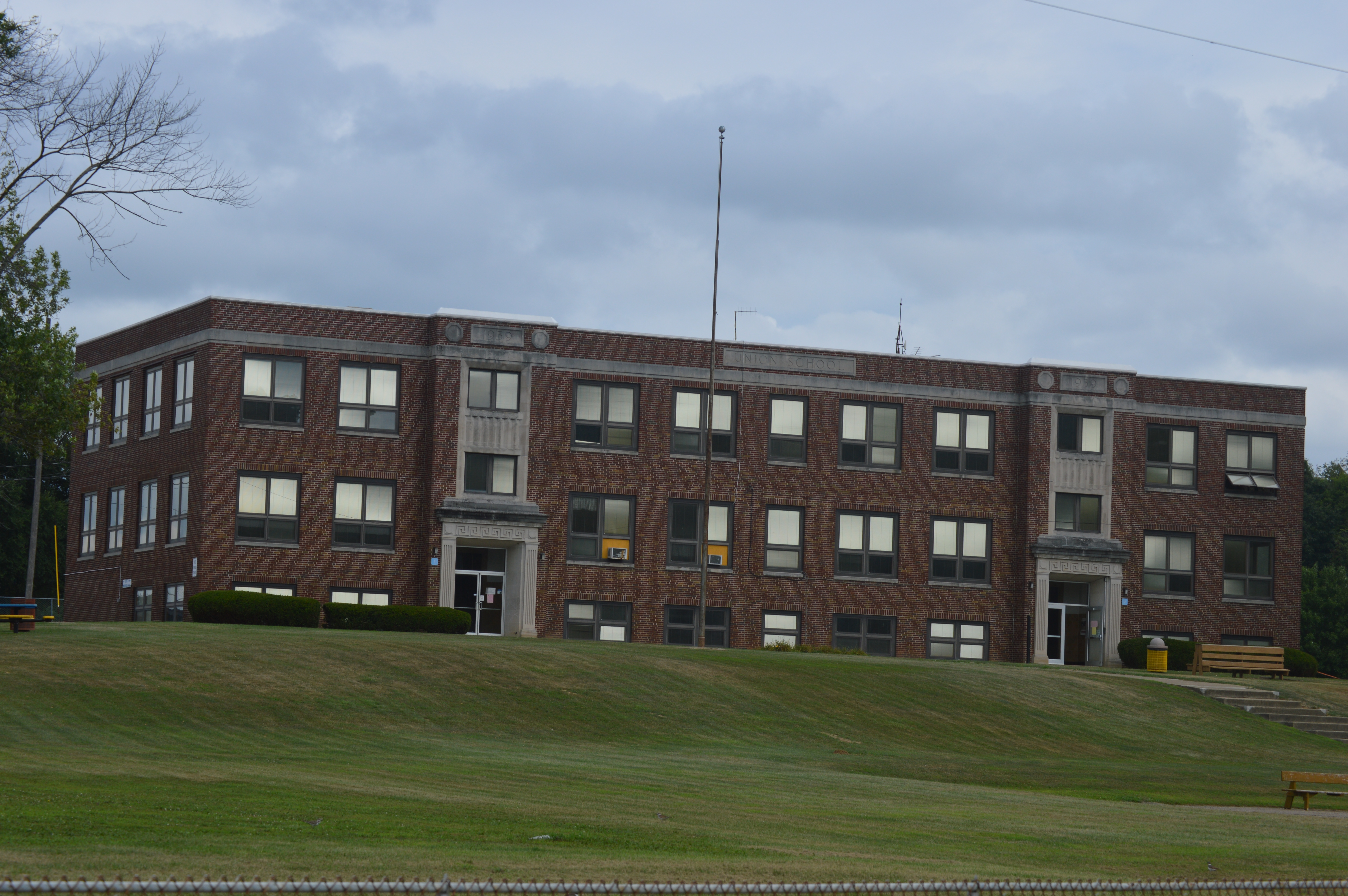 Front of Union Elementary School, located at 19781 State Route 79 southwest of Warsaw in Perry Township, Coshocton County, Ohio, United States. It was built in 1939.